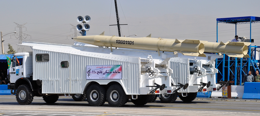 Picture of Fateh-110 missiles on the old TEL. Taken from Iranian armed forces parade in 2012